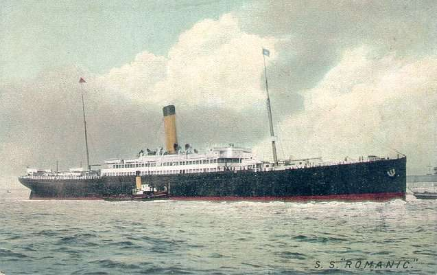 SS Romanic formerly SS New England and later SS Scandinavian